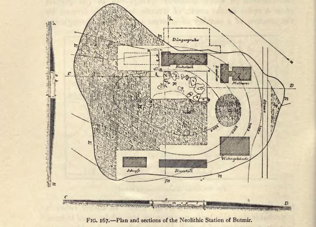 Figure(s): 167